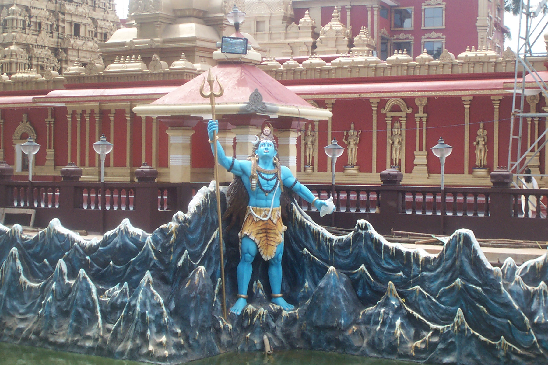 Ganga Avataran episode- Shiva with Goddess Ganga (Ganges) in his matted locks. ..calling all the animals and the whole of nature to respond to him.Gokarnatha Temple Mangalore